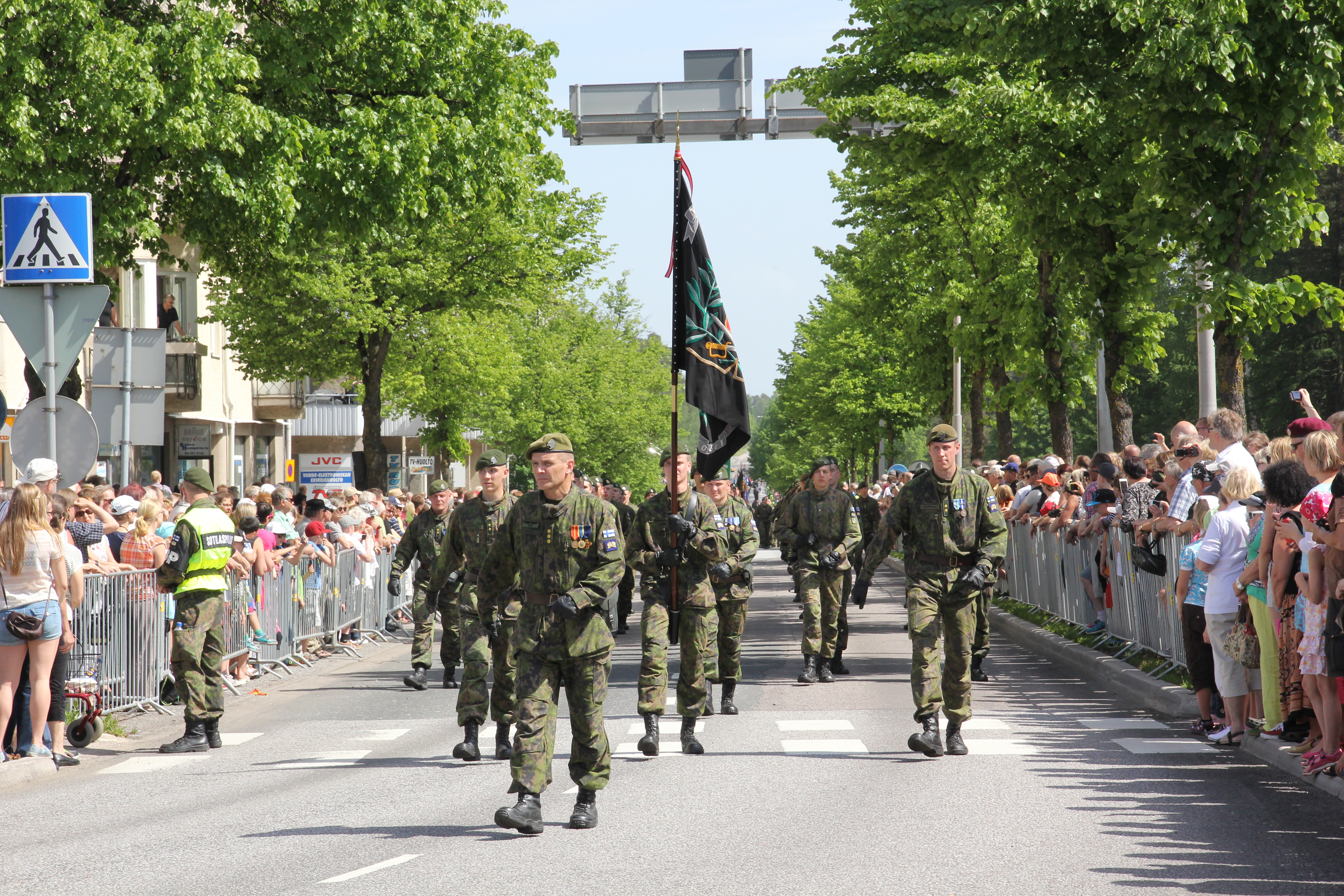 Reserve officer school during the Finnish military Flag Day 2014 parade along Valtakatu street in Lappeenranta. Colonel Timo Pöysti leading.